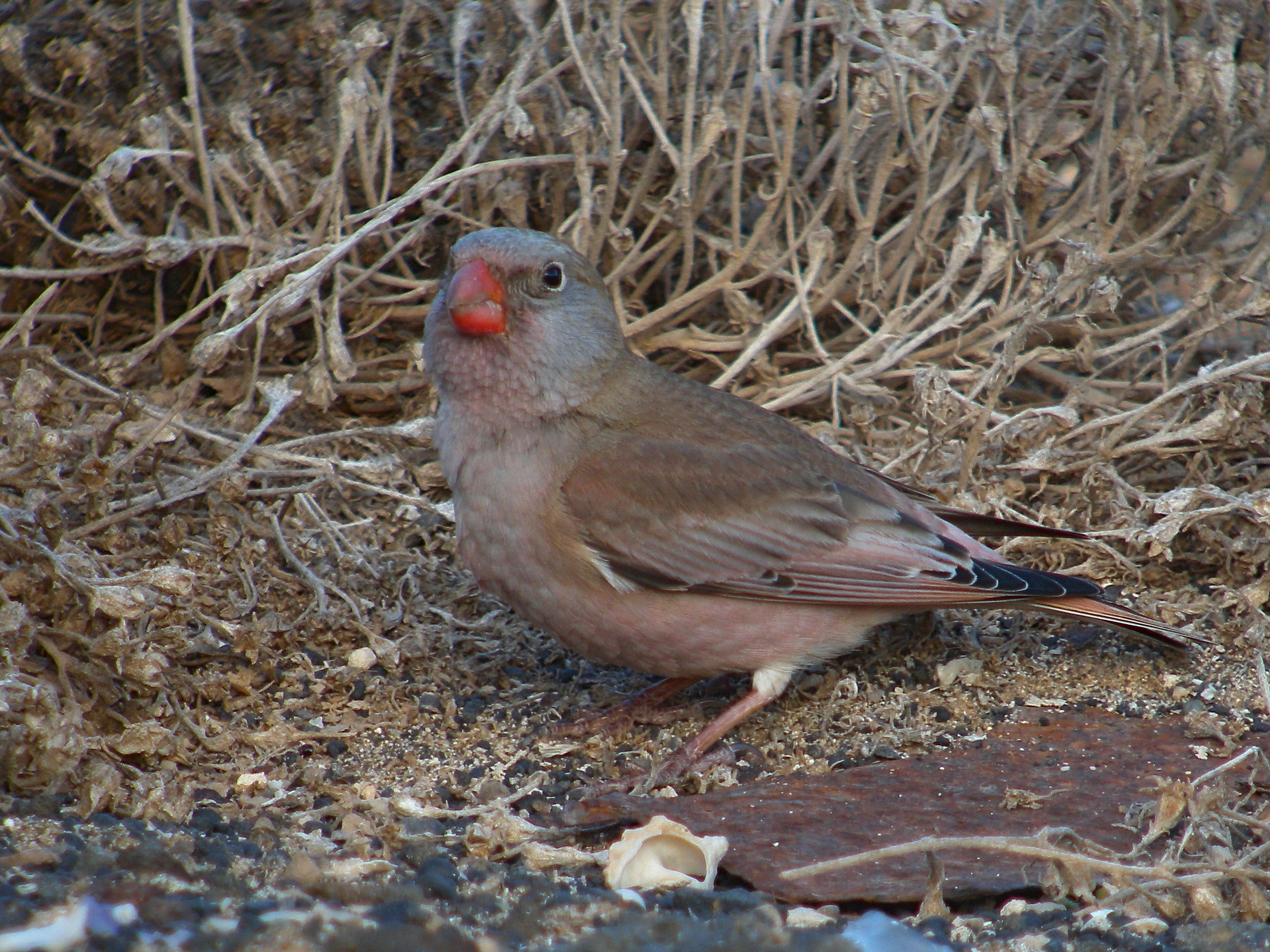 A Trumpeter Finch in Salinas de Janubio, Lanzarote, Canary Islands, Spain.